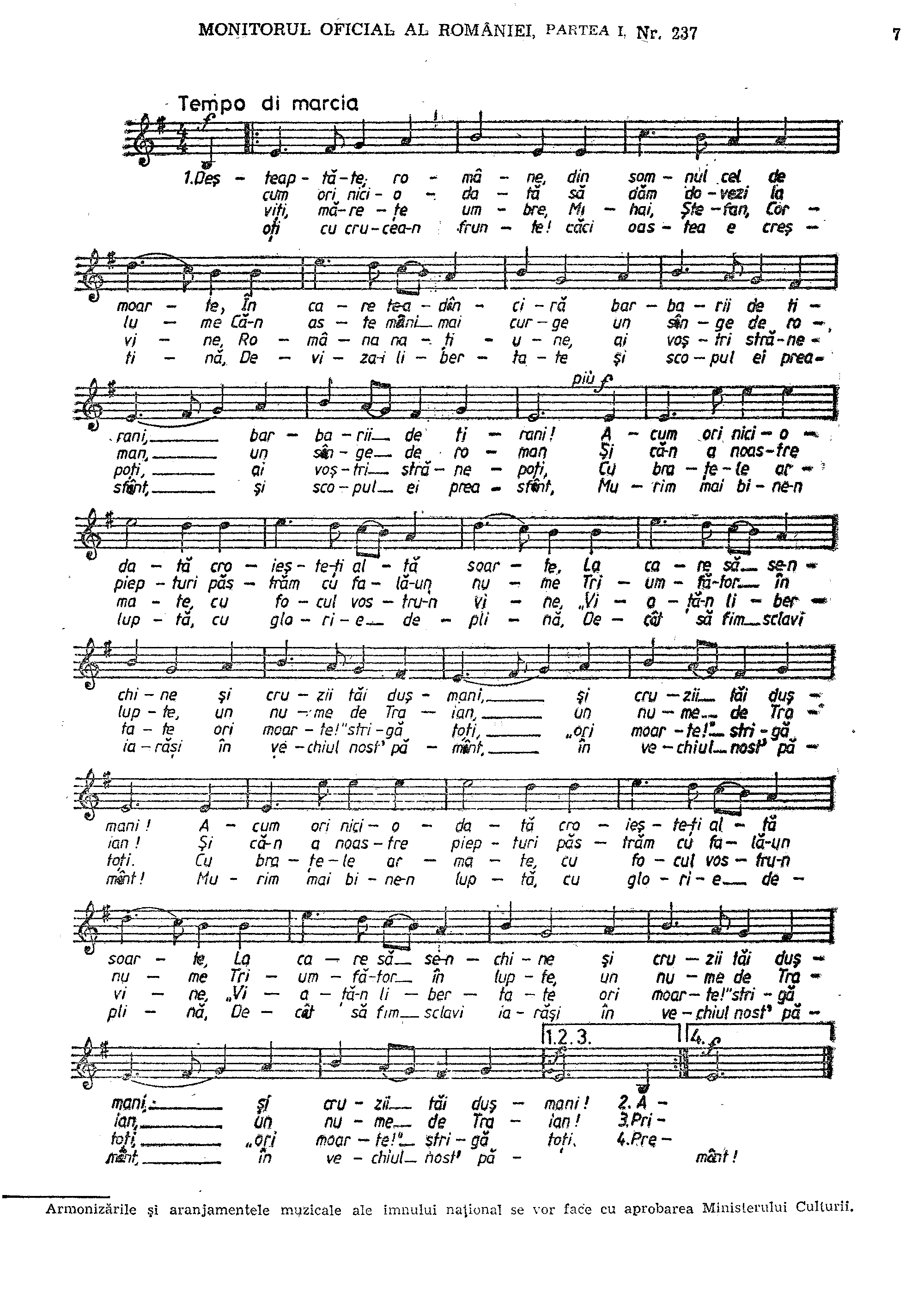 Music of the national anthem of Romania, Deşteaptă-te, române. Page from the Law nr. 75/1994.